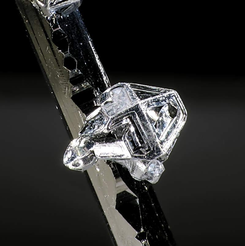 Tellurium Locality: Emperor Mine, Vatukoula, Tavua Gold Field, Viti Levu, Fiji (Locality at ) Tellurium crystal on sylvanite. Picture width 2 mm. Collection and photograph Christian Rewitzer This Photo was Photo of the Day - 5th Apr 2007